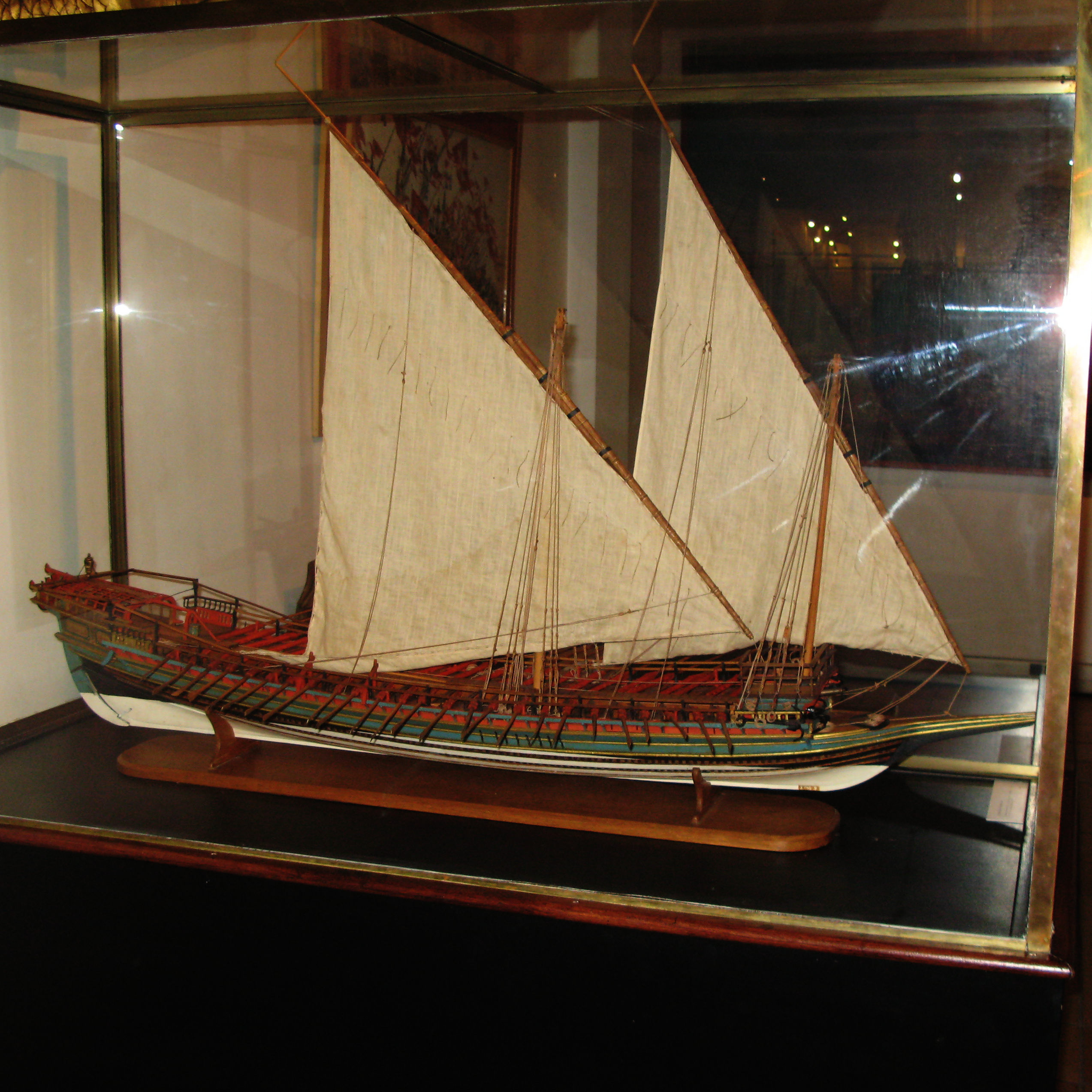 Model of a galley On display at Toulon naval museum.